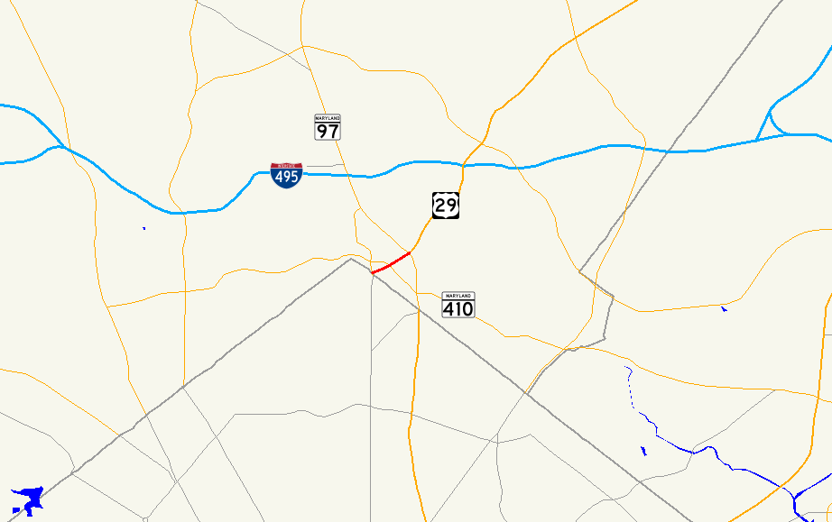 Map of Maryland 384